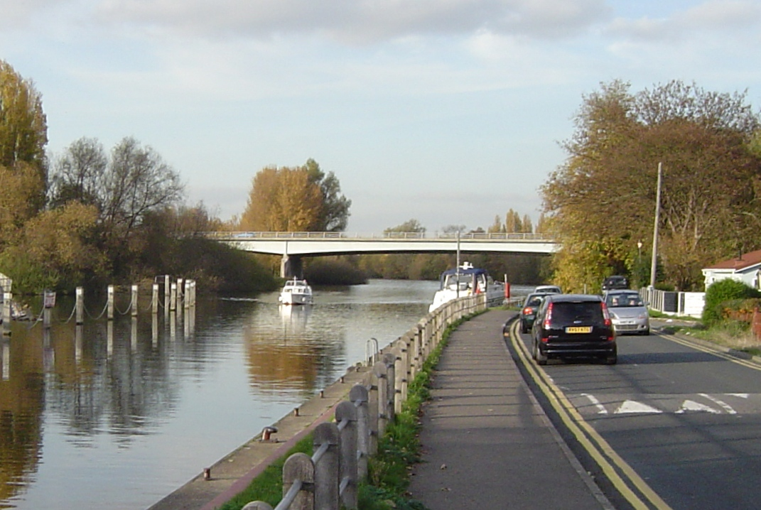 M3 Road Bridge